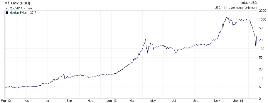 Bitcoin price for the last 2 years on Mt.Gox in log scale